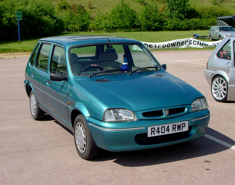 January 1998 blue Rover 111. Metro 30th Anniversary at Heritage Motor Centre, Gaydon, UK